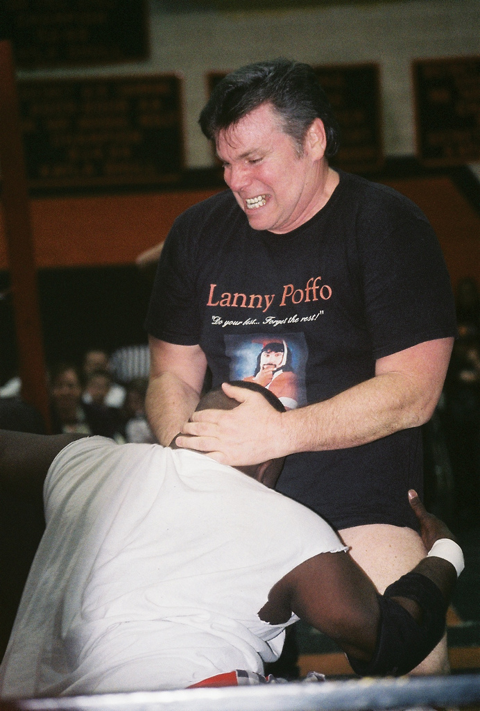 Match from Franklin, PA 4-10-10